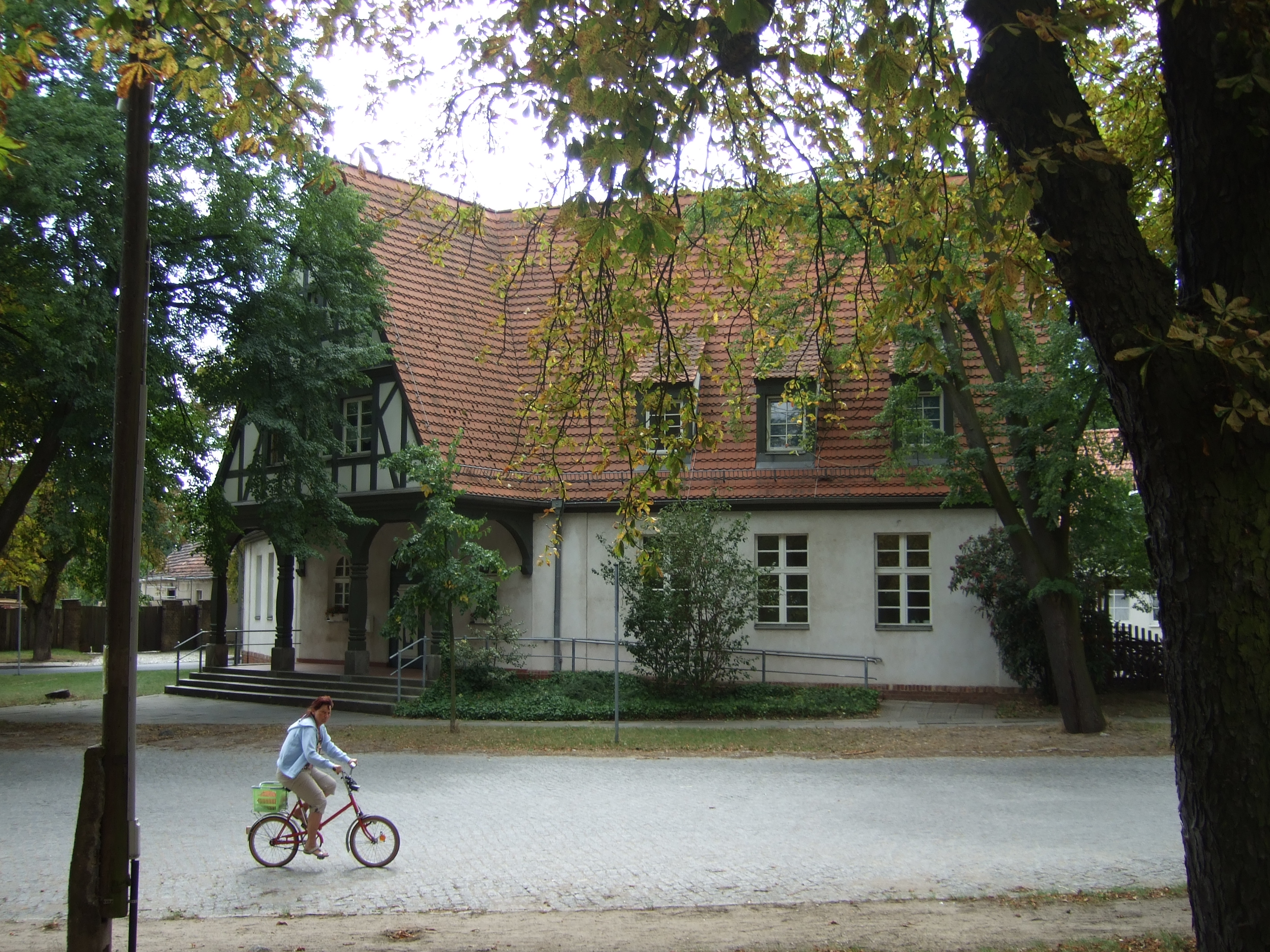 Former school in Kiestow, borrough of Frankfurt (Oder), Germany.